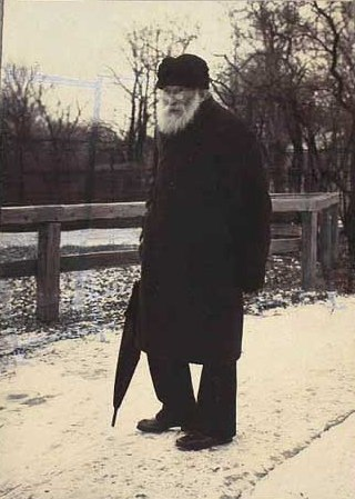 Johan Adolph Kittendorff (1820-1902), Danish litographer, illustrator, and painter